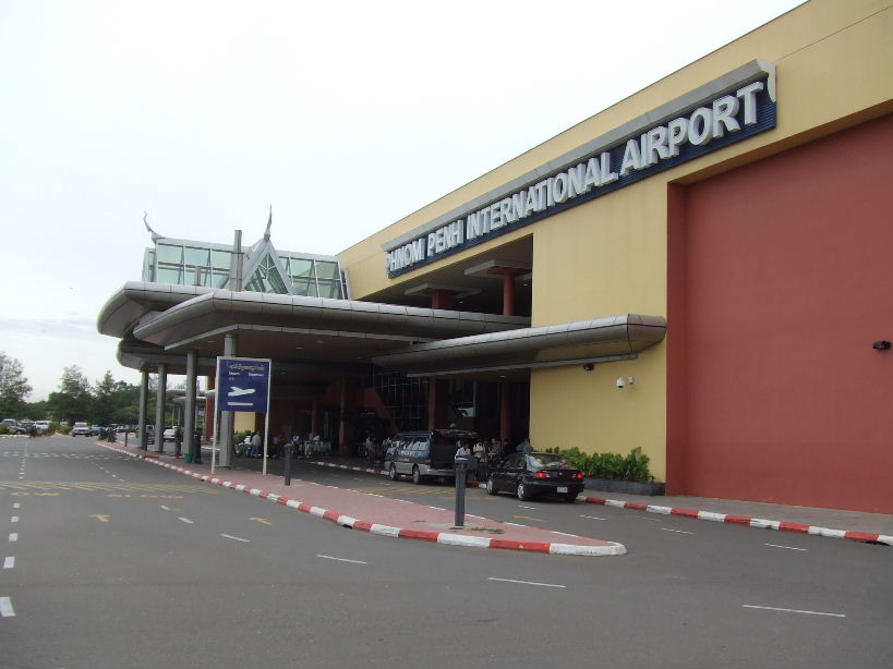 Entrance of Phnom Penh International Airport ភាសាខ្មែរ: អាកាសយាន្តដ្ឋានអន្តរជាតិភ្នំពេញ